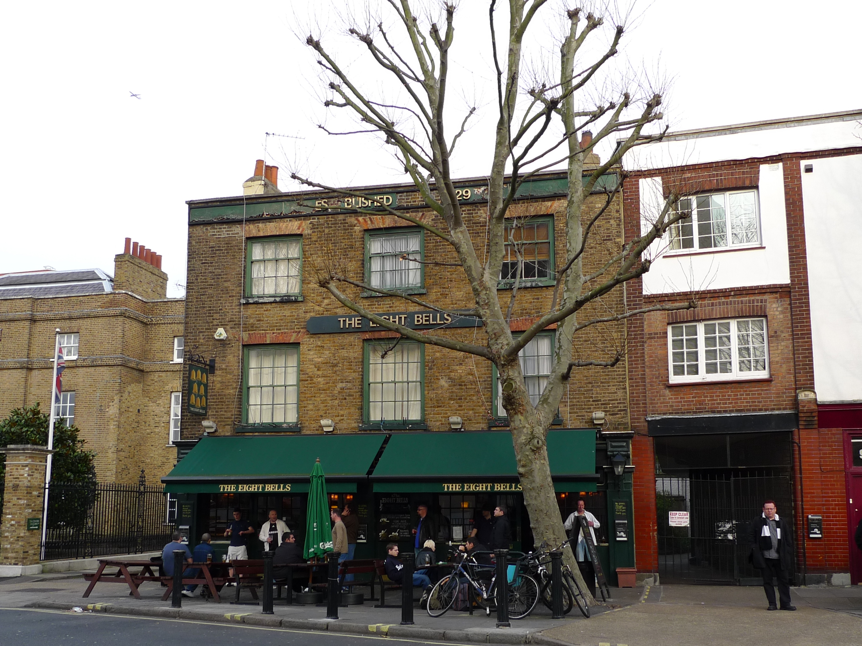 A pleasant locals' pub near Putney Bridge station, with plenty of seating inside. Gets a bit full inside, where the football was playing on the TV. Address: 89 Fulham High Street. Owner: Mann Crossman Paulin (former). Links: Randomness Guide to London Fancyapint Pubs Galore Beer in the Evening Qype Dead Pubs (history)